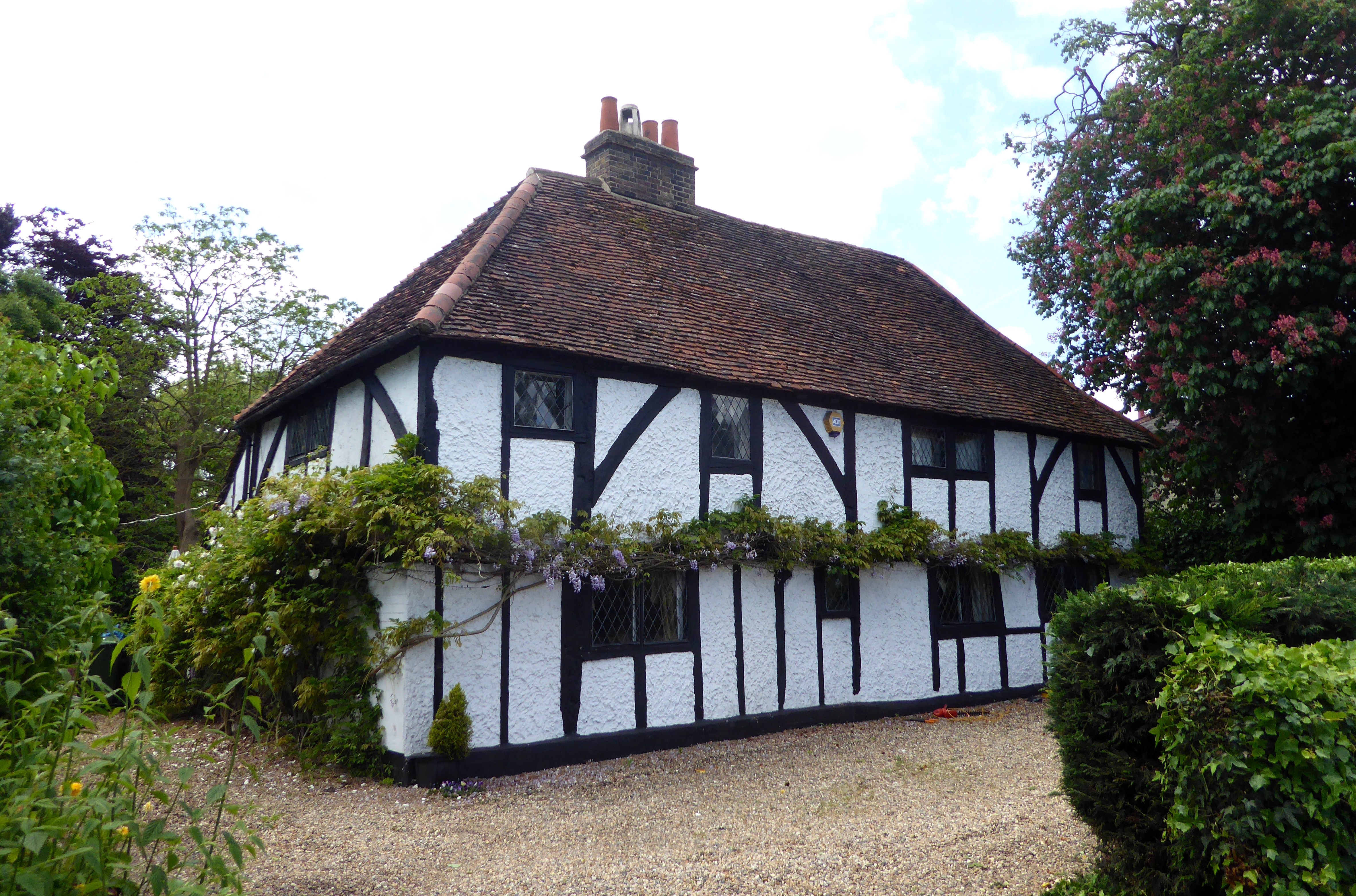 27 Halfway Street in Lamorbey, London Borough of Bexley. A fifteen or sixteenth-century building that is Grade II listed.